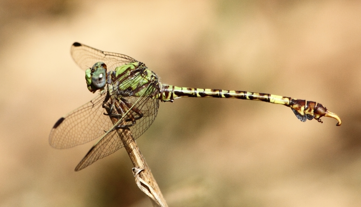 Male Corkscrew Hooktail (Paragomphus elpidius) near the Tugela River, KwaZulu-Natal, South Africa